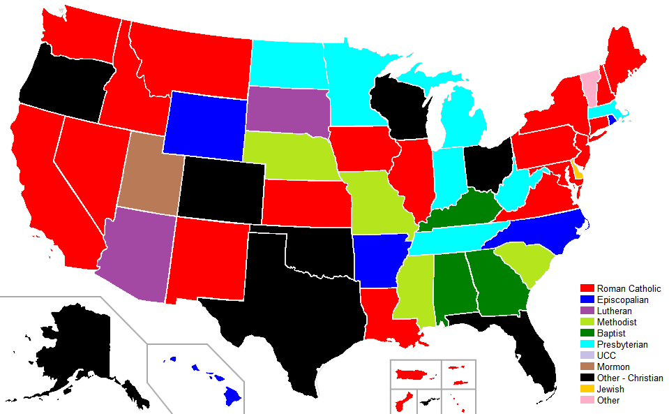 This is an updated map showing the religious preferences of each governor as listed on Wikipedia and/or the United States Congress website. This map is current as of 6 July 2012